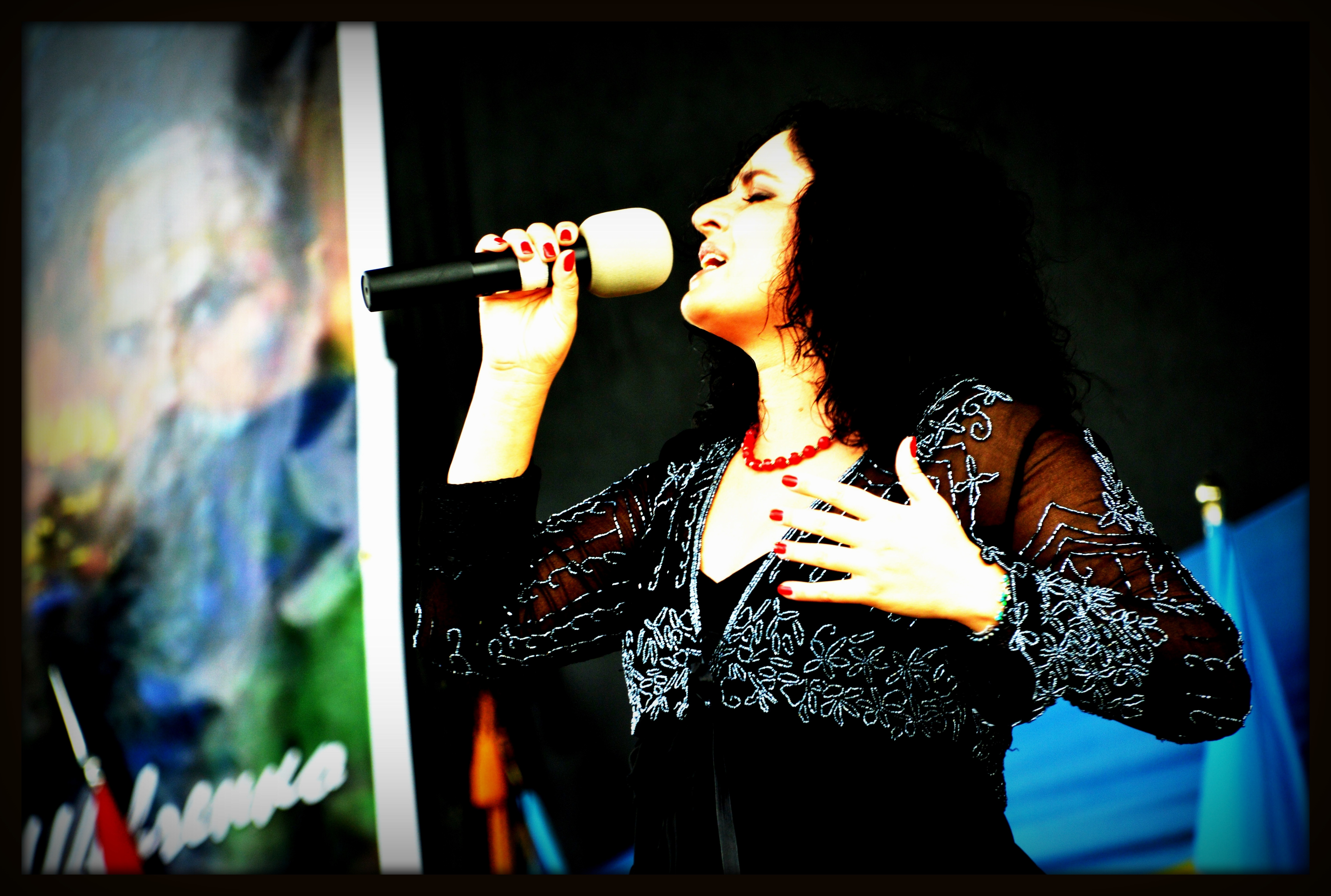 Marta Shpak at the Independence Day of Ukraine in Toronto 2014